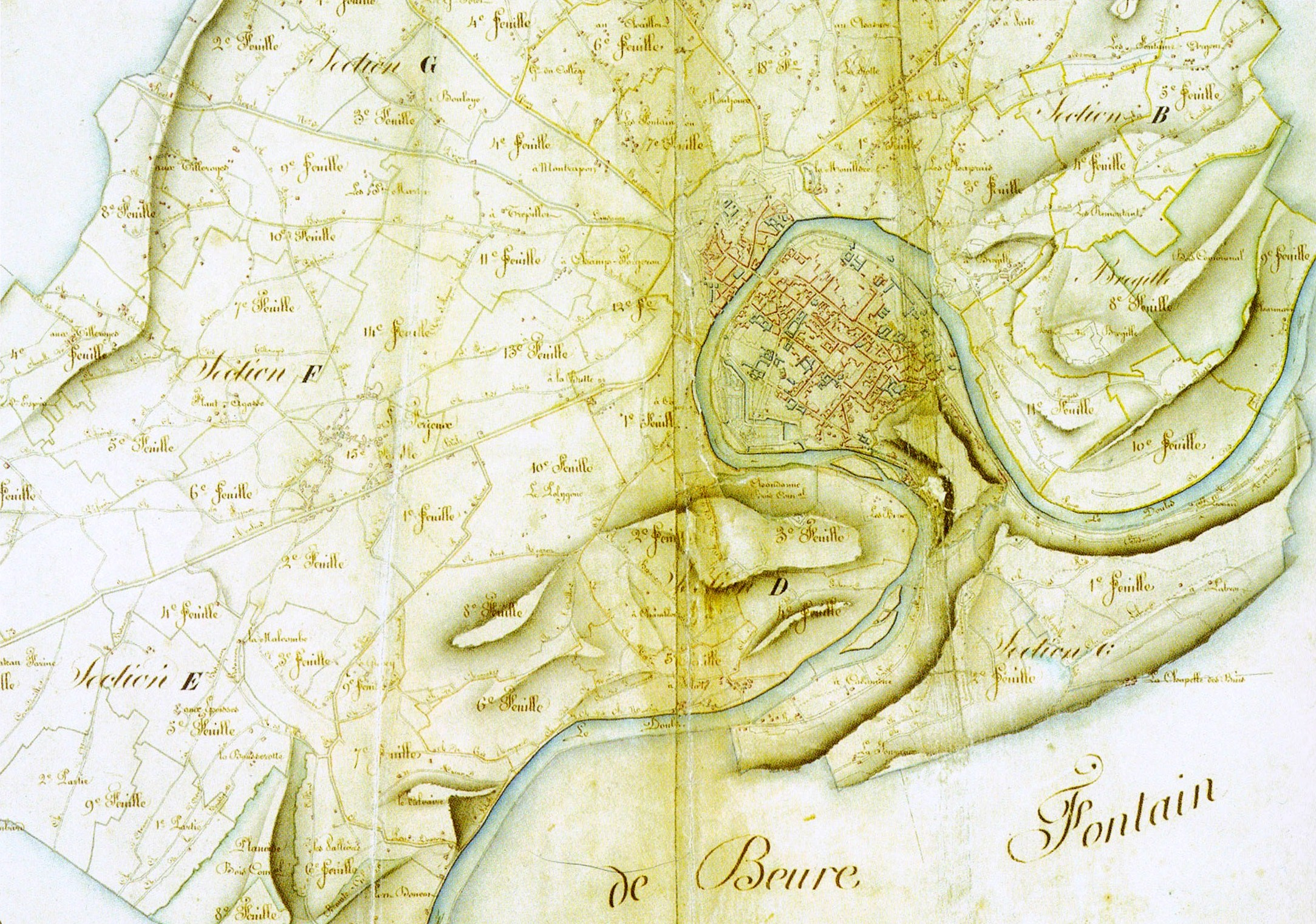 Map of Besançon, in 1834.